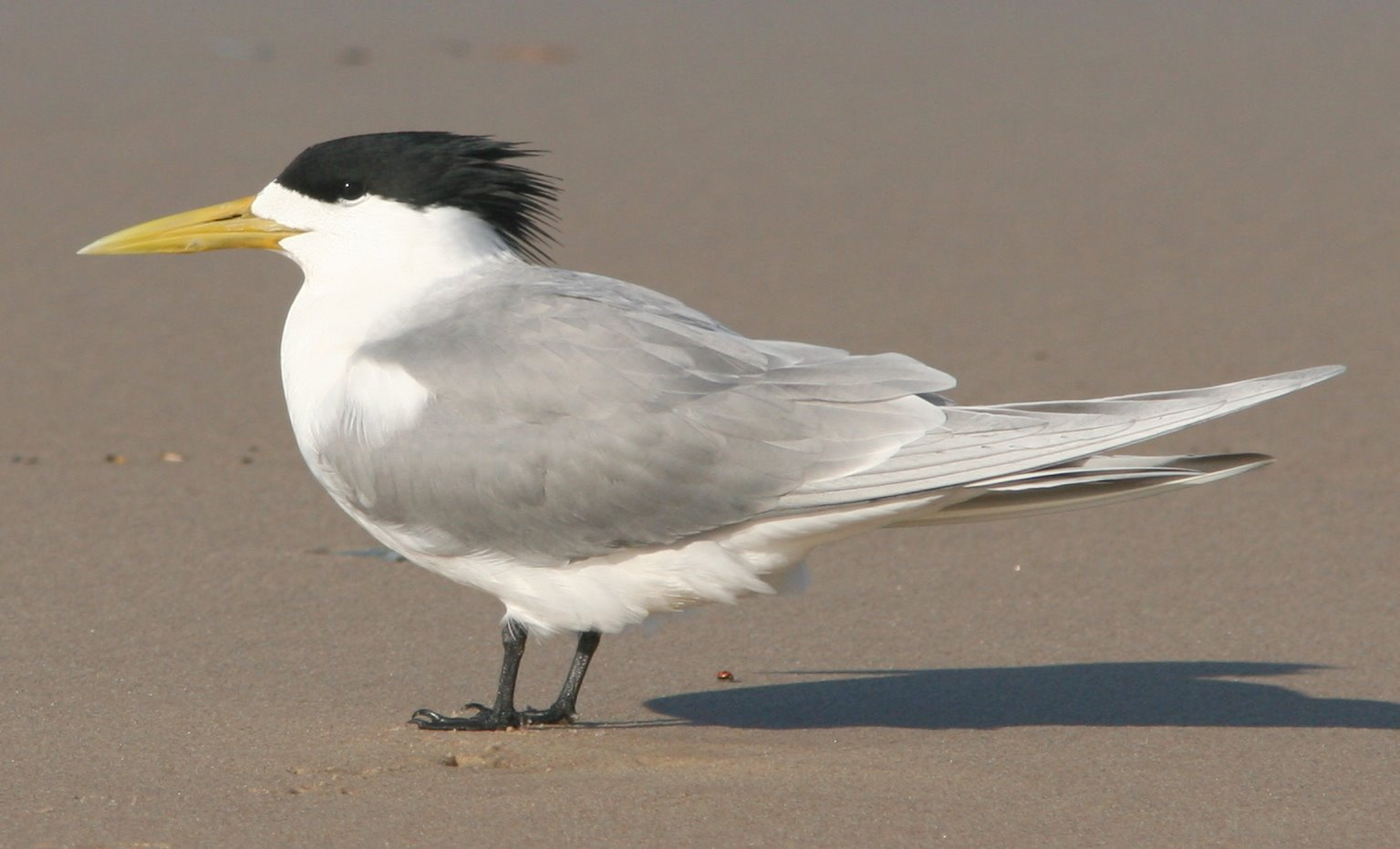 Crested Tern, Thalasseus bergii (Syn. Sterna bergii), breeding plumage.